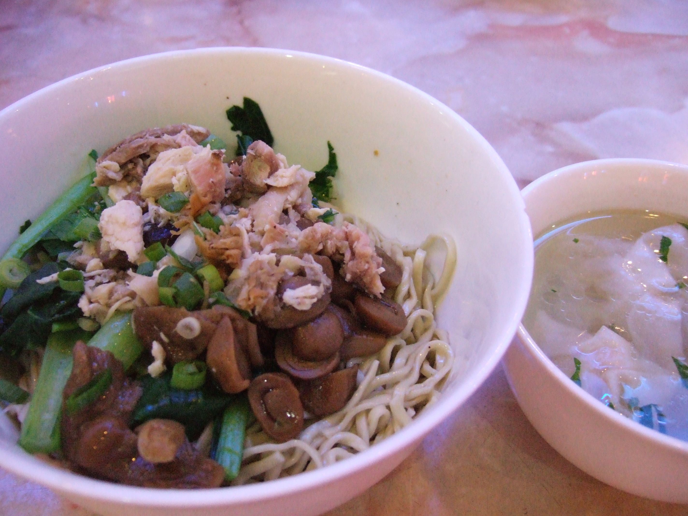 Chicken noodle with wonton soup